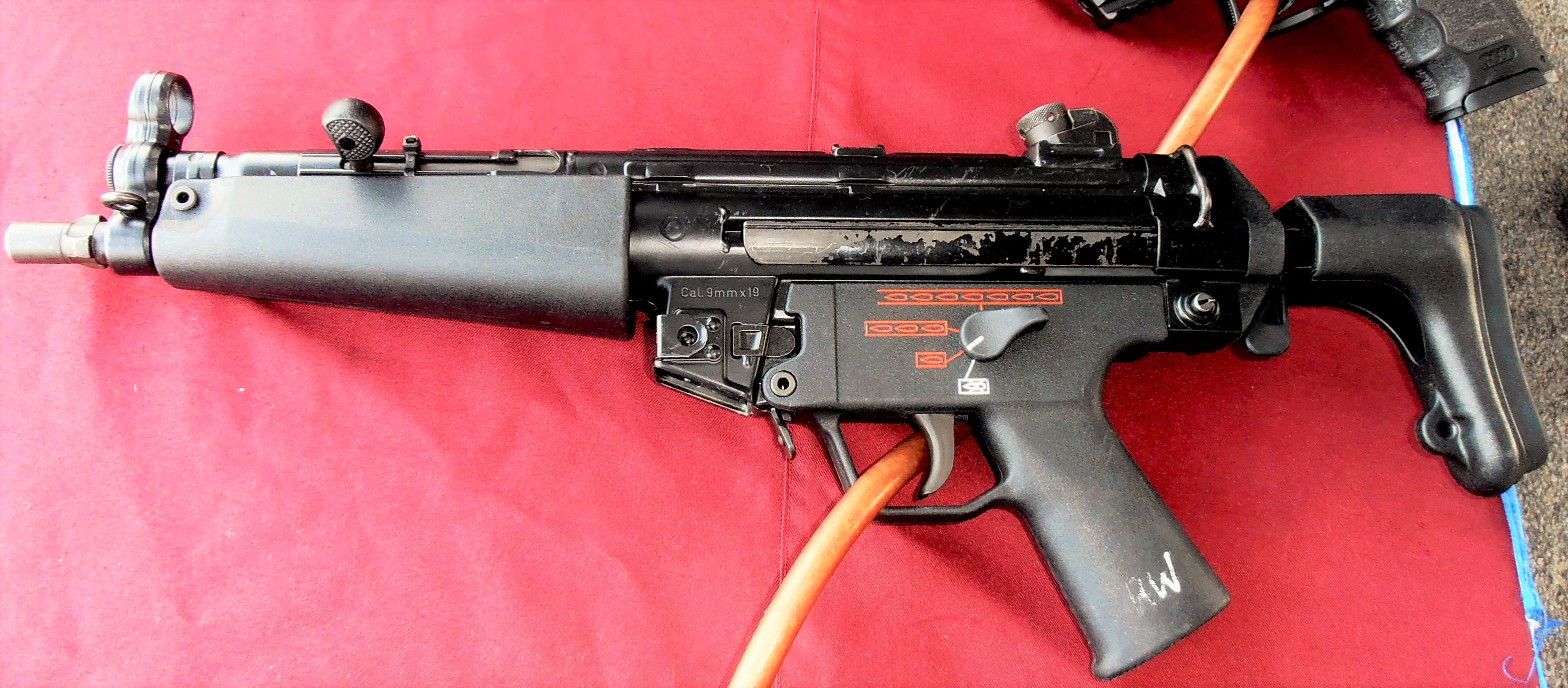 LUMUT (May 01, 2016) A German Heckler & Koch MP5A5 submachinegun used by PASKAL on display at an navy armory exhibition booth during 82nd Anniversaries of Royal Malaysian Navy, Lumut, Perak, Malaysia. Basically, the weapon is one of three MP5Ns in the PASKAL weapons inventory but PASKAL possibly changed the fire selector with an A5 trigger group (Safe/Semi/Burst/Auto).